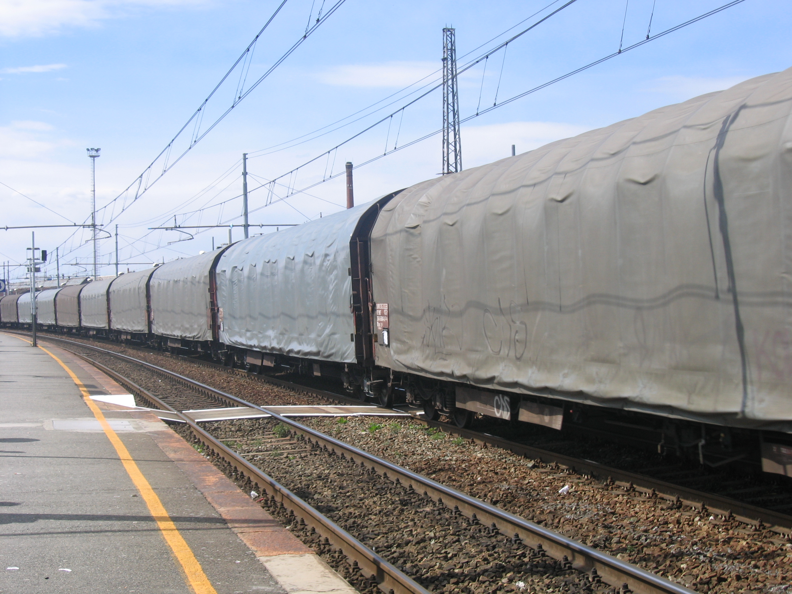 covered cargo trucks (trained by E633-670). Santhià (TO), Italy